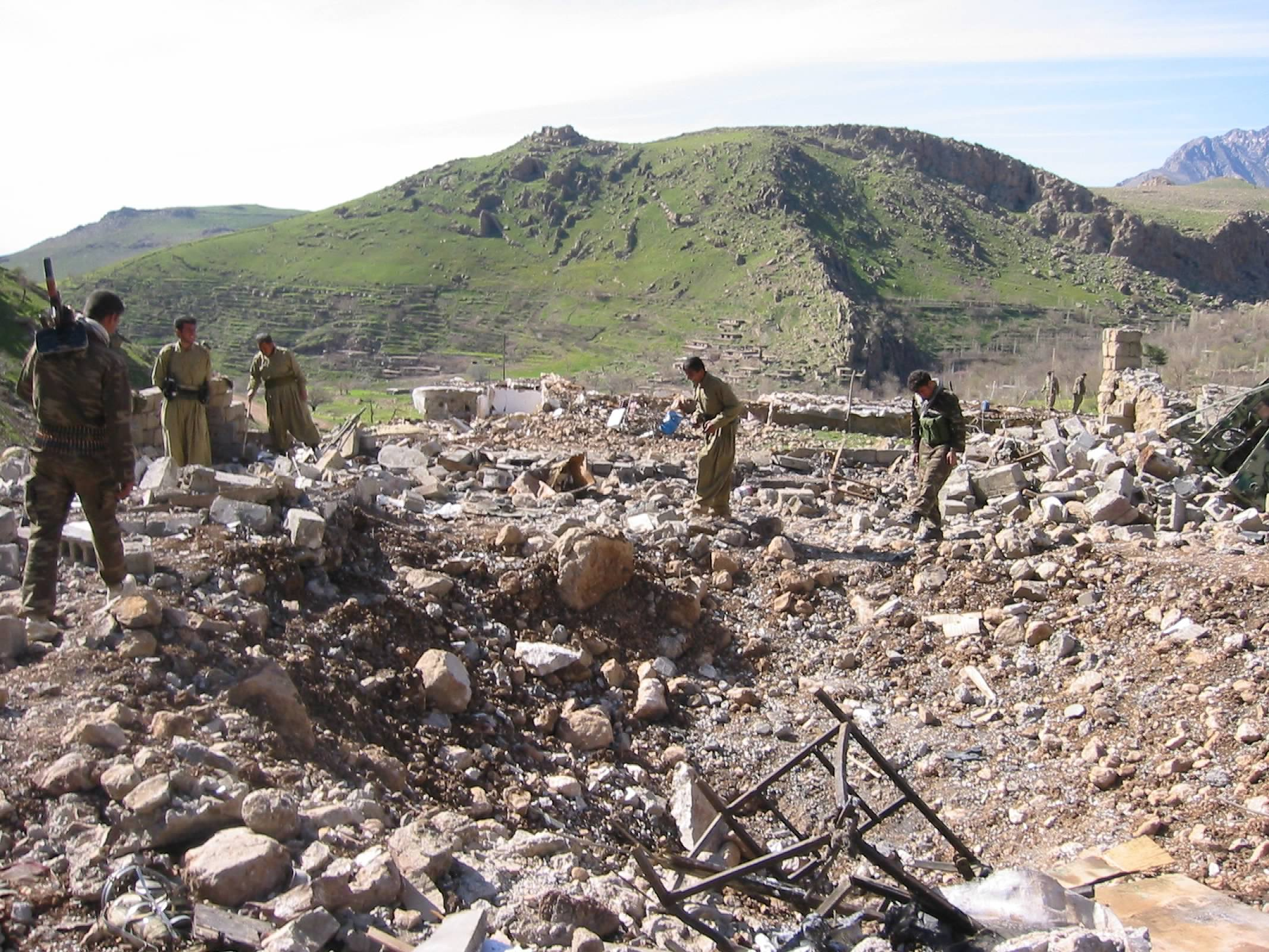 Searching ruins of AQ chemical facility